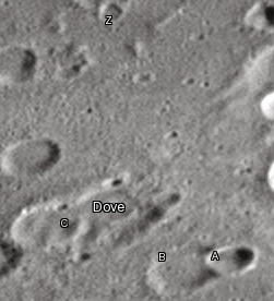 Dove lunar crater as seen from Earth with satellite craters labeled